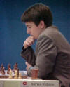 Categorie:Afbeelding schaker (Original text: Teimour Radjabov)